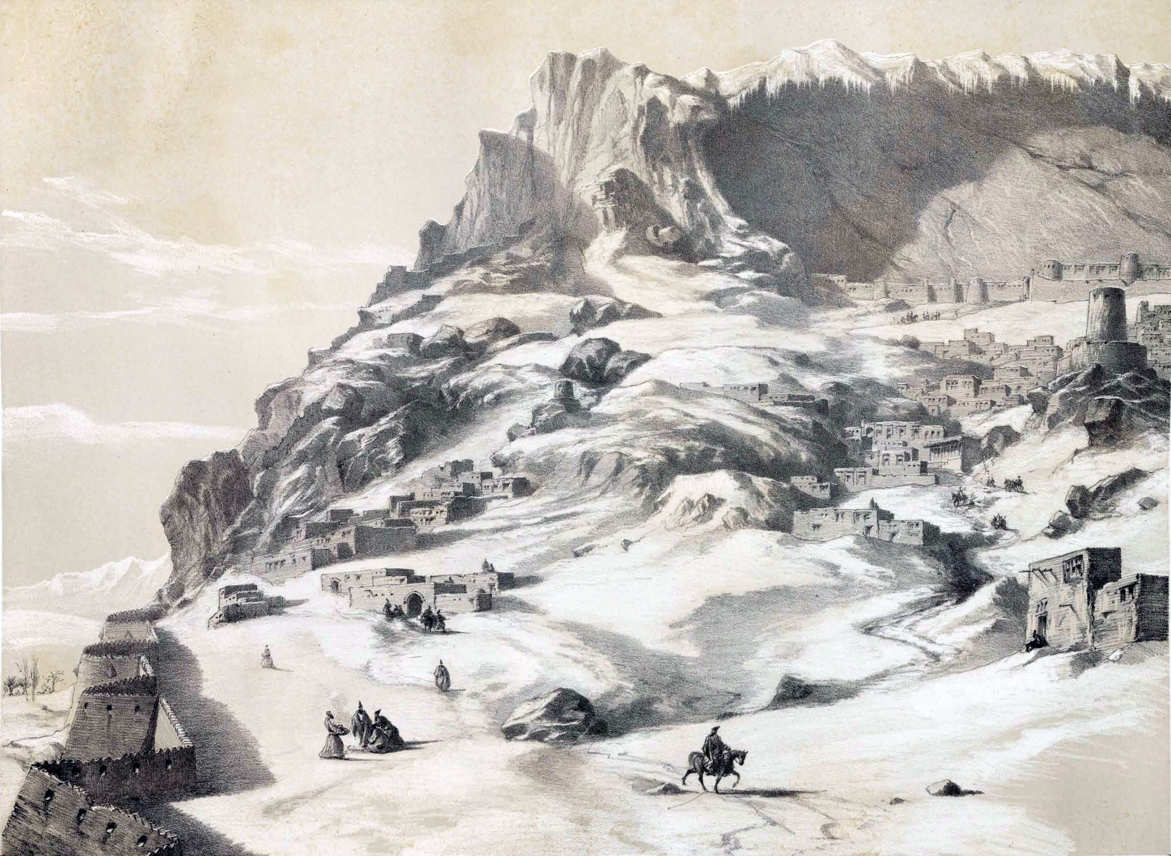 Makou border city of Armenia